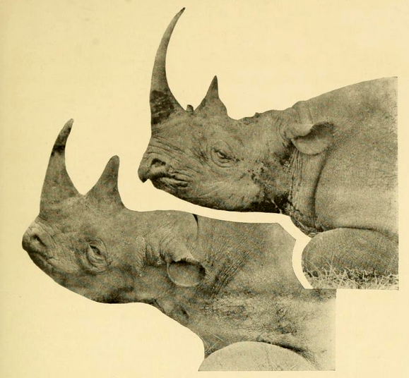 Comparative illustration of black and white rhinos